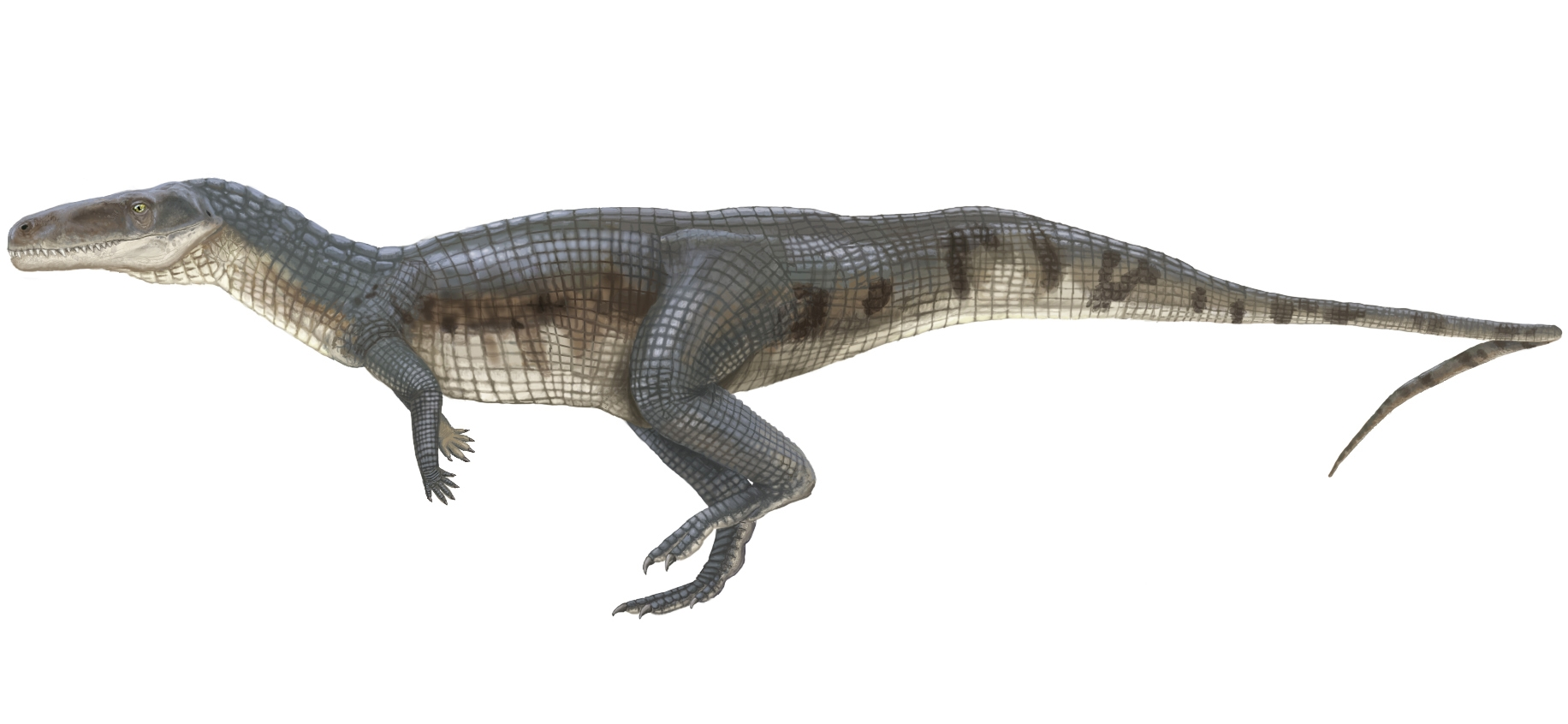 Life restoration of Poposaurus gracilis. Based on Figure 1 of "The bipedal stem crocodilian Poposaurus gracilis: inferring function in fossils and innovation in archosaur locomotion" by Jacques A. Gauthier, Sterling J. Nesbitt, Emma R. Schachner, Gabe S. Bever, and Walter G. Joyce (Bulletin of the Peabody Museum of Natural History 52 (1): 107-126).